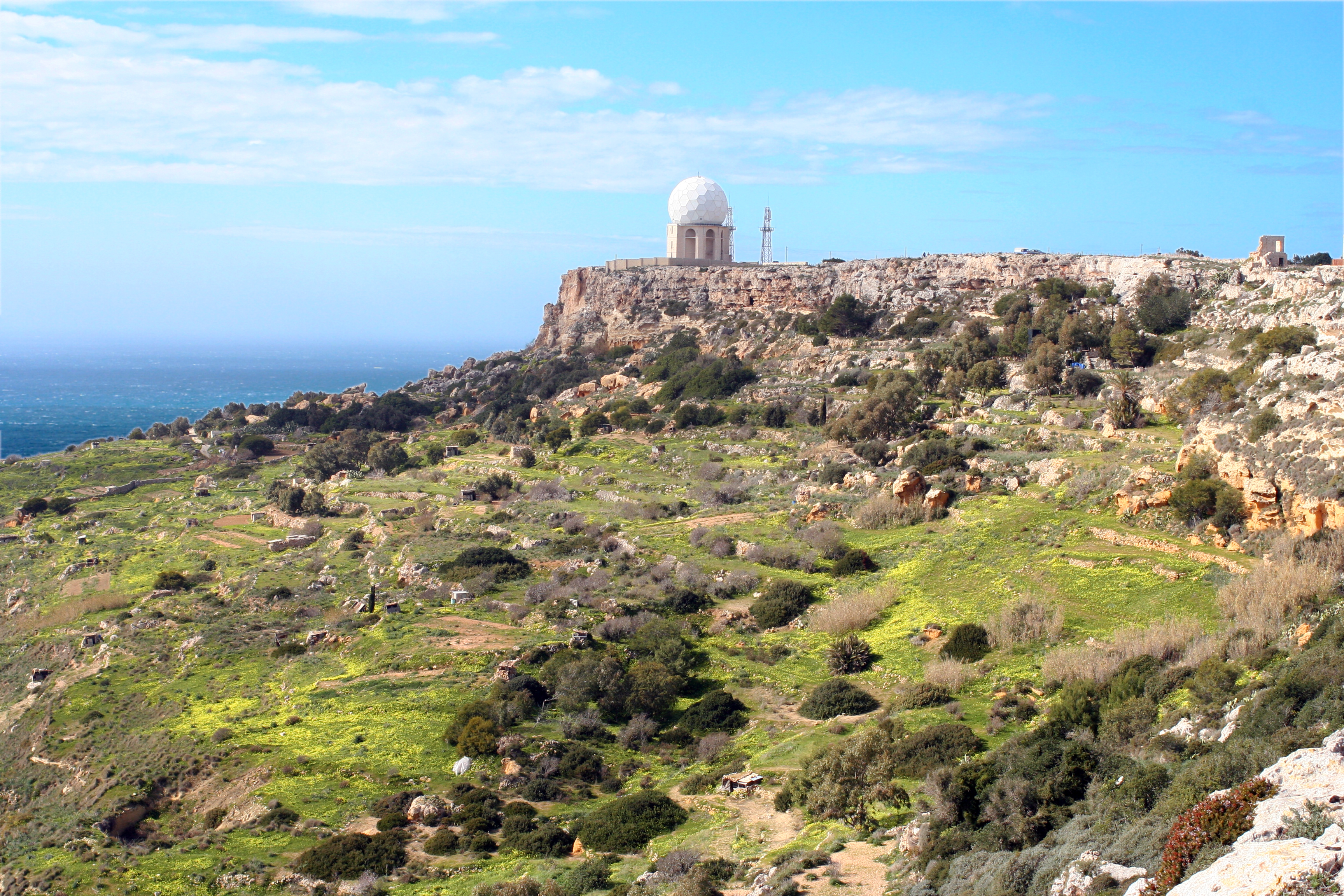 Malta, coast near Dingli, a radar dome atop the Dingli Cliffs